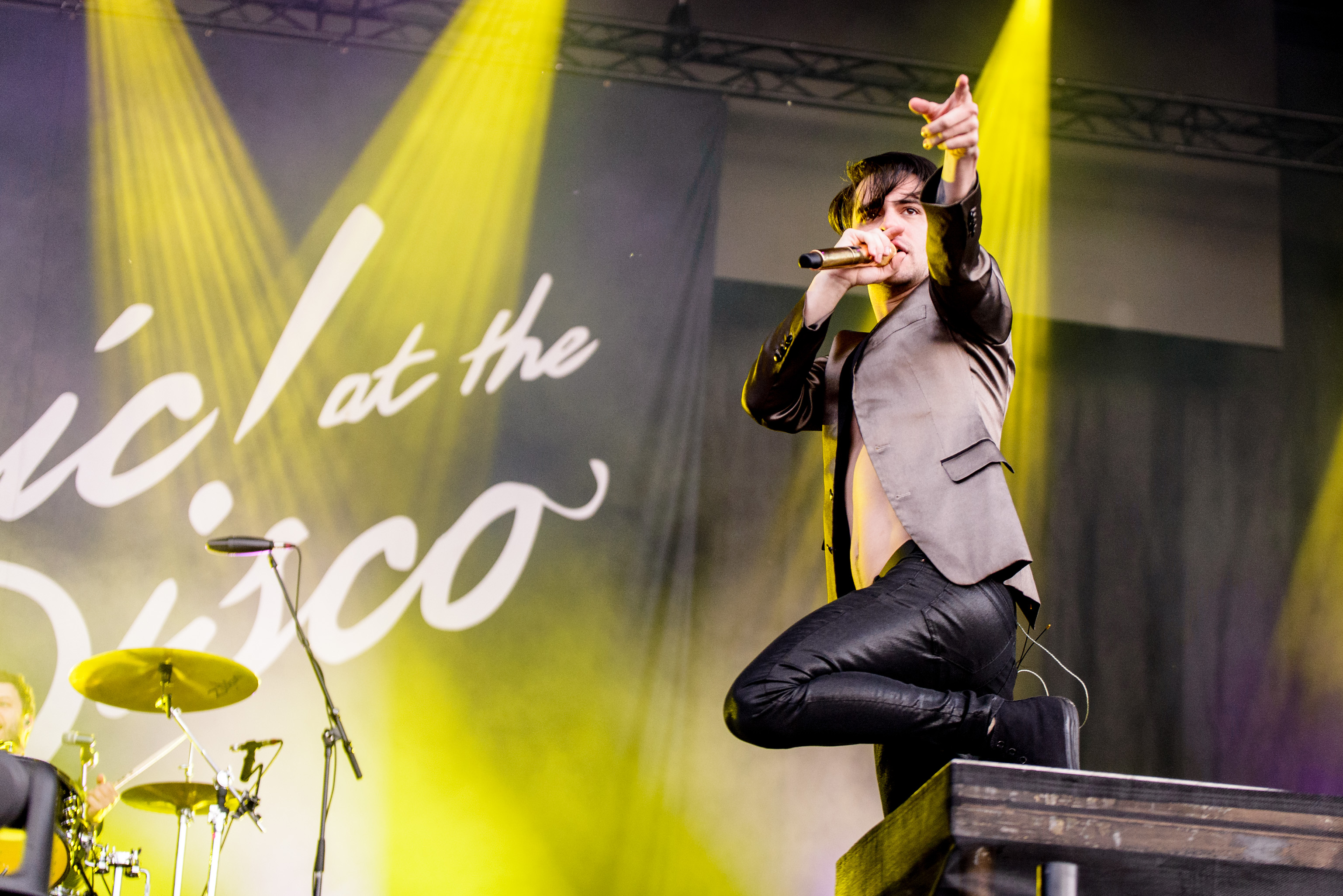 Panic! at the Disco @ Rock im Park 2016